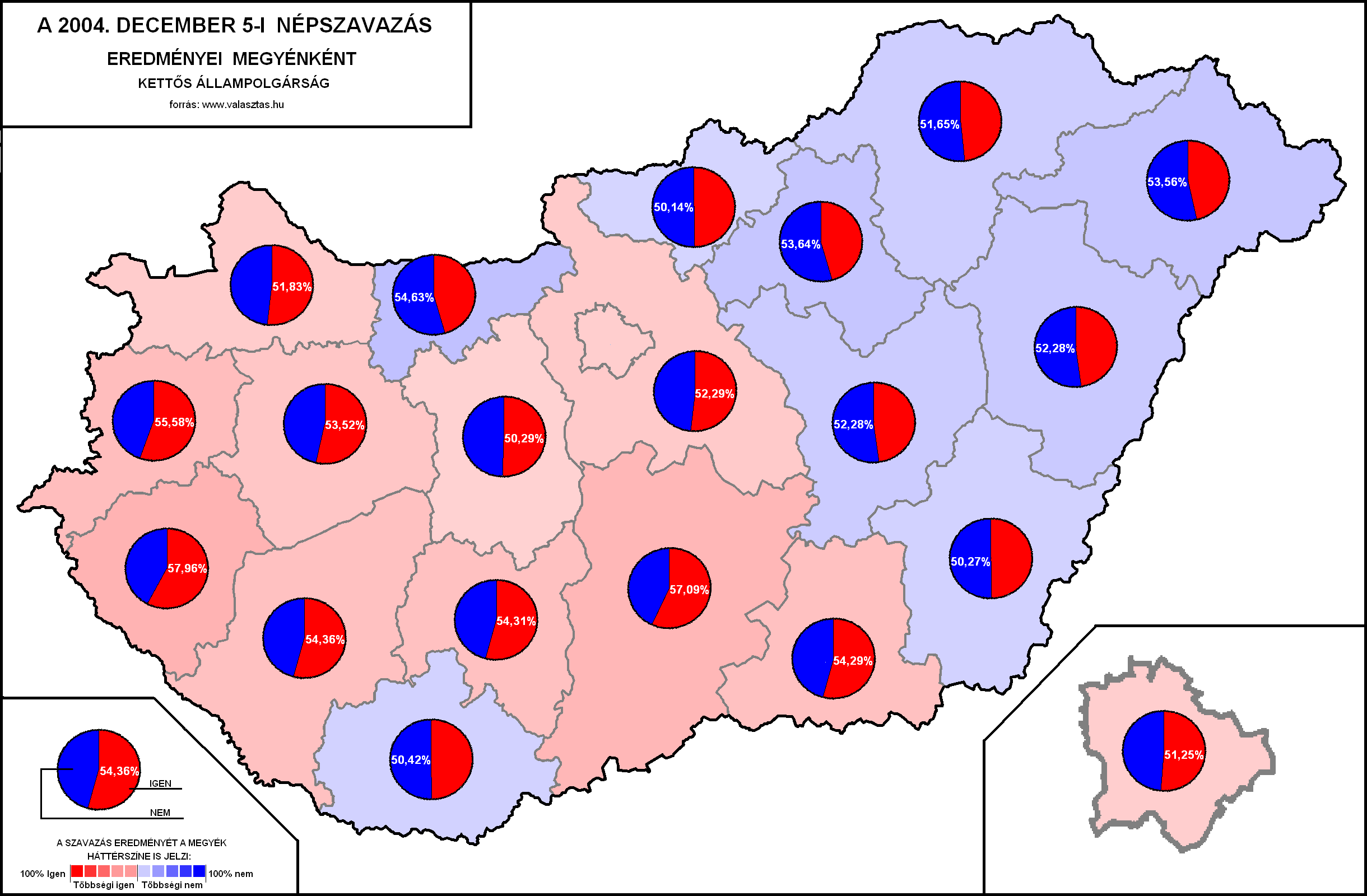 2004 Hungarian Referendum, Results by County (second question)